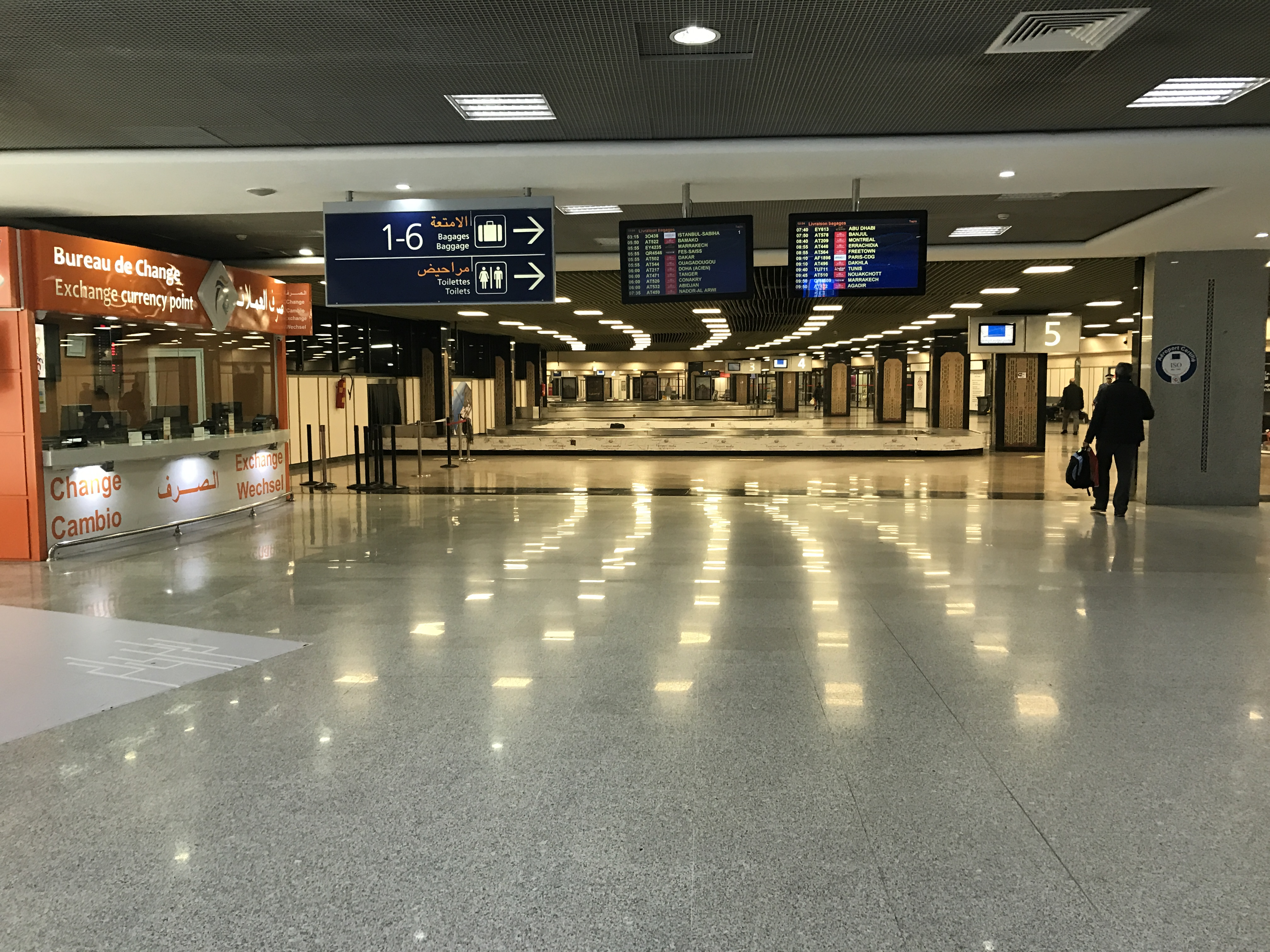 Baggage carousel in Casablanca Airport, Morocco